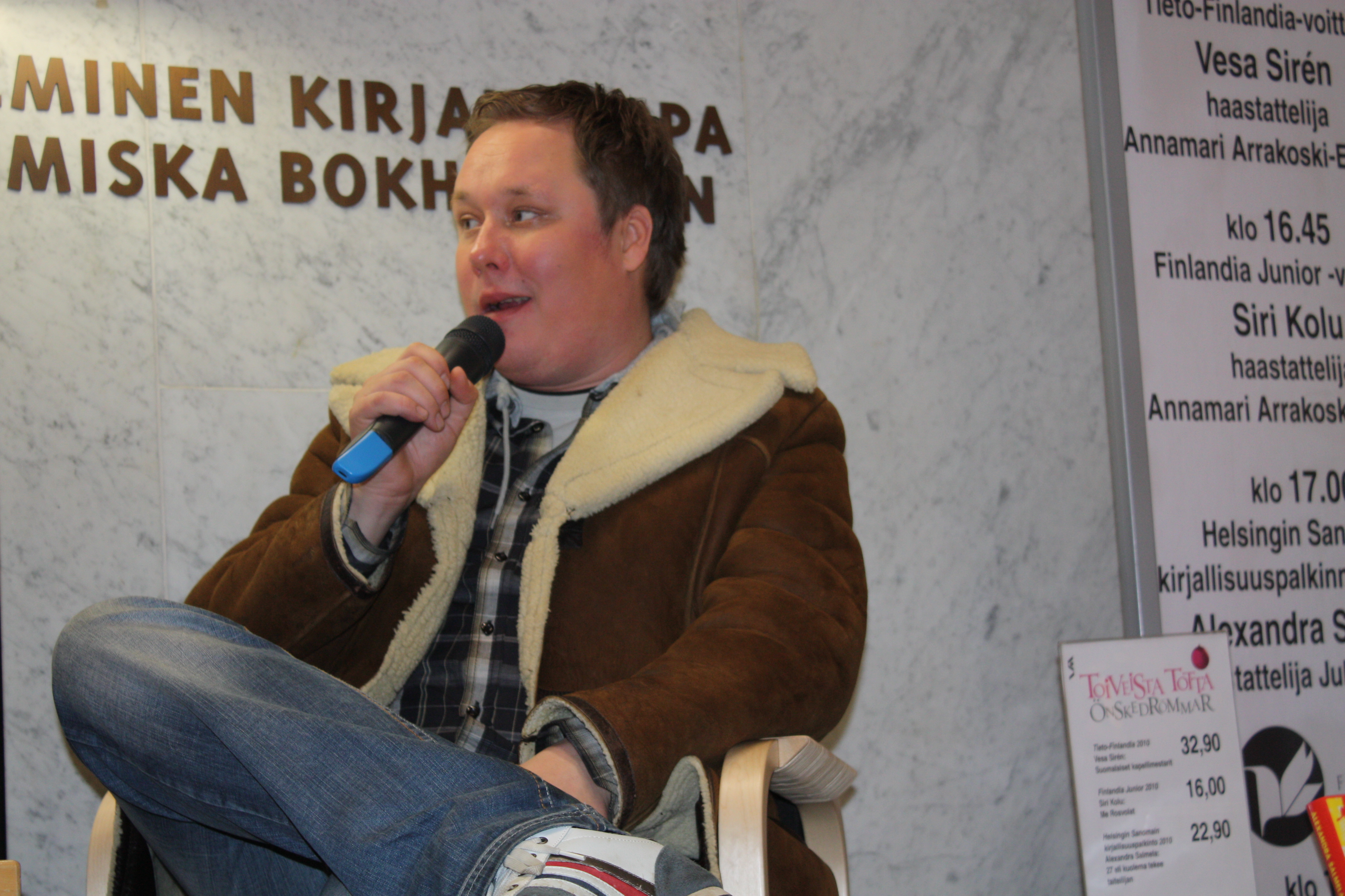 Mikko Rimminen interviewed in a book store on the day he won The Finlandia Prize 2010 for the best Finnish novel.